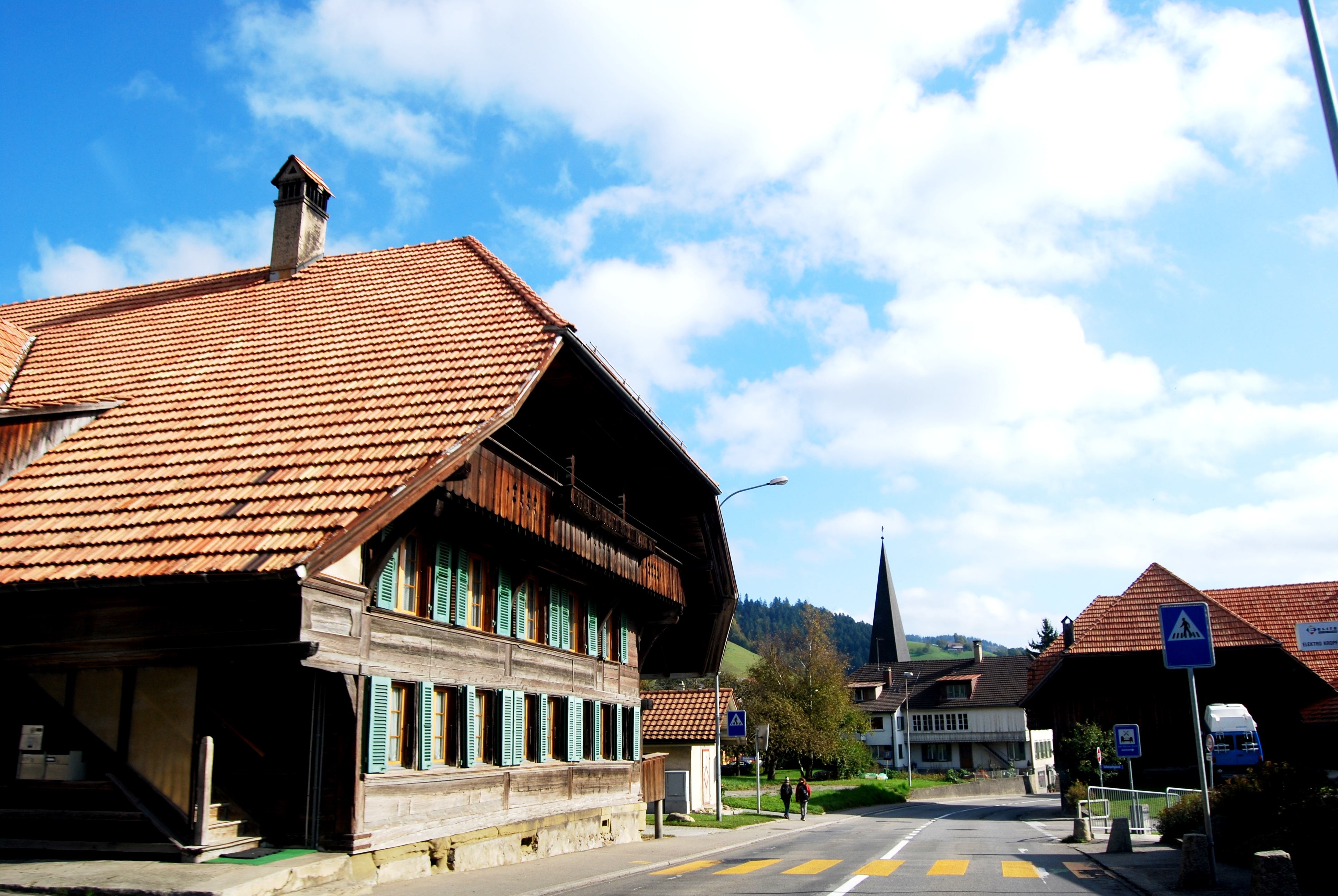 Zäziwil, canton of Bern, SwitzerlandEsperanto: Zäziwil, Kantono Berno, Svislando